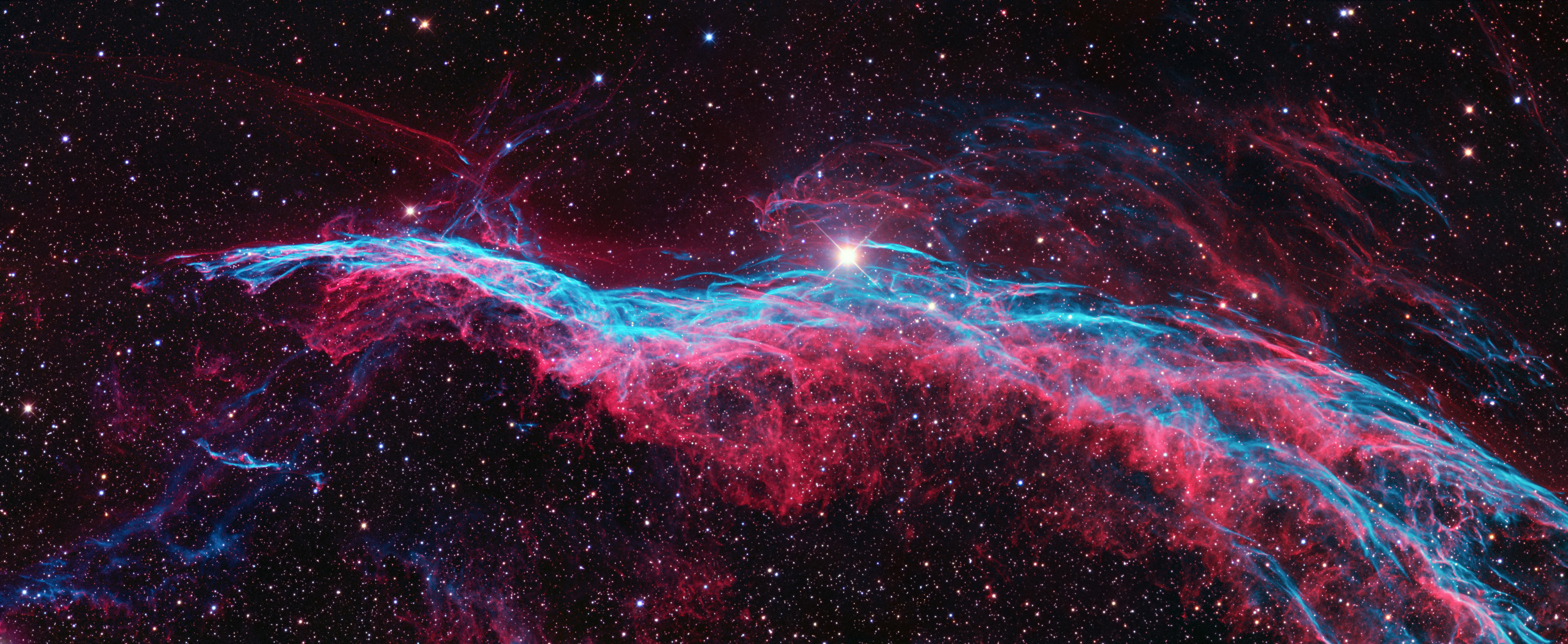 NGC 6960 or the Veil Nebula is a cloud of heated and ionized gas and dust in the constellation Cygnus. The analysis of the emissions from the nebula indicate the presence of oxygen, sulfur, and hydrogen. This is also one of the largest, brightest features in the x-ray sky. It is the Western Veil of the nebula (also known as Caldwell 34), consisting of NGC 6960 (the "Witch's Broom", "Finger of God", or "Filamentary Nebula") near the foreground star 52 Cygni. The image details of NGC6960 is a three frame mosaic taken with 5 different filters, standard Red – Green – Blue with details enhanced with narrowband data of Hydrogen (Ha) and Oxygen (OIII). The Ha was color mapped to Red and the OIII to teal. So it is a representative color image consisting of over 39 hours of exposure time.